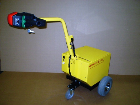 The picture shows a standard yellow might-e tug in an ordinary room.